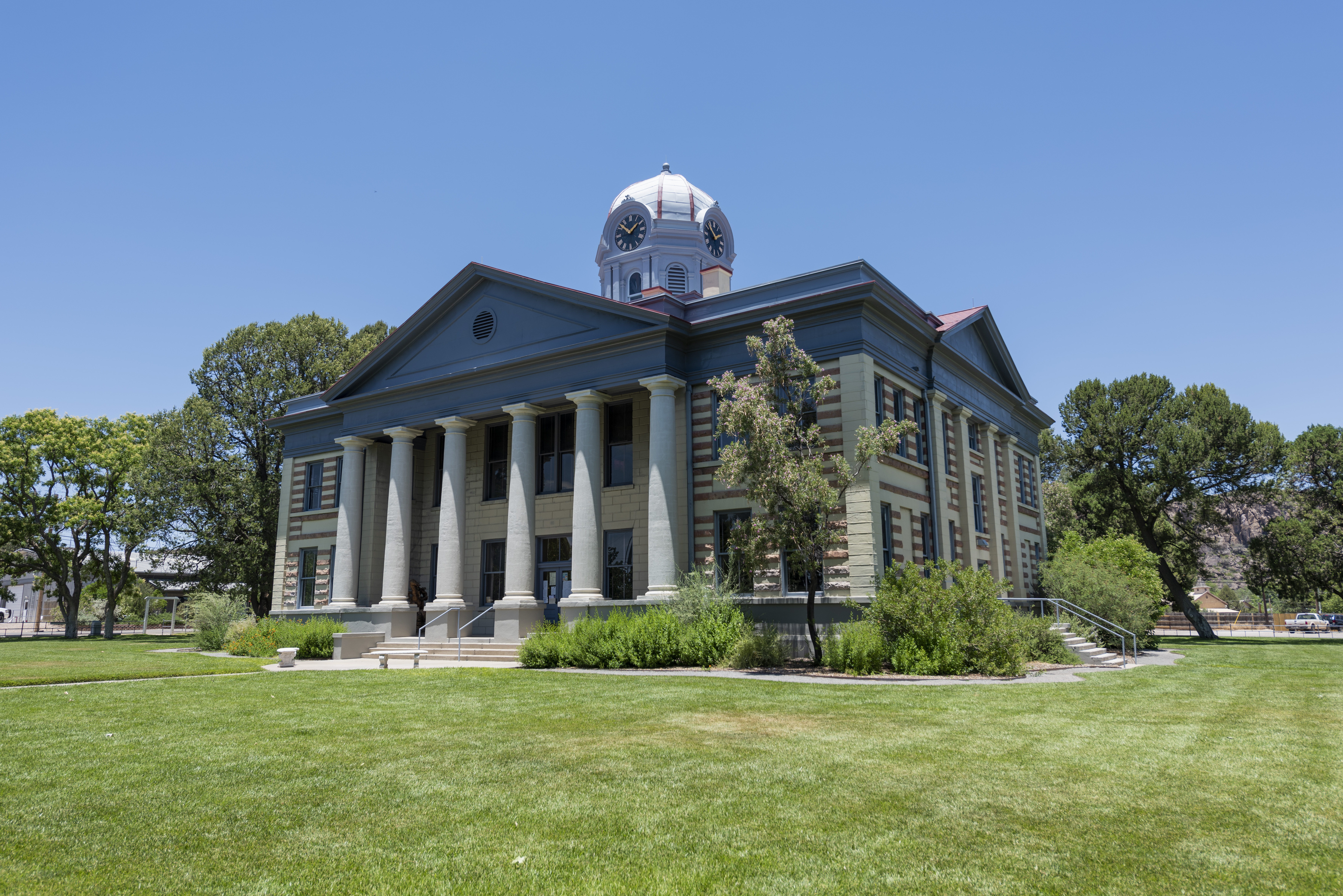 Image of the Jeff Davis County courthouse located in Fort Davis, Texas. Image taken in June 2020.